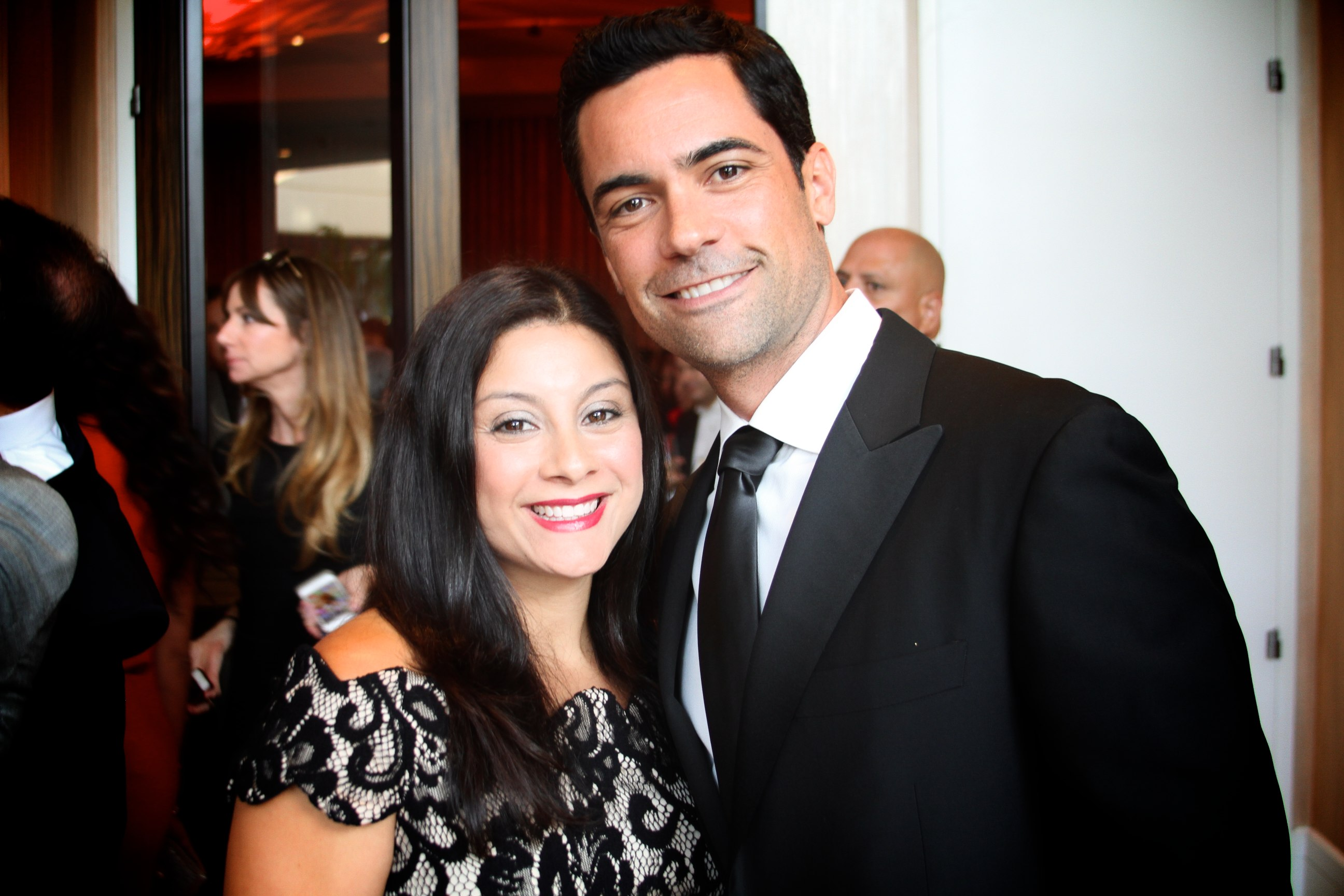 Danny Pino and wife Lilly at the 2014 Imagen Foundation Awards